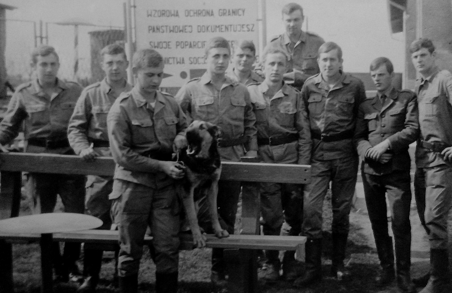 Border Protection Forces in Krzanowice